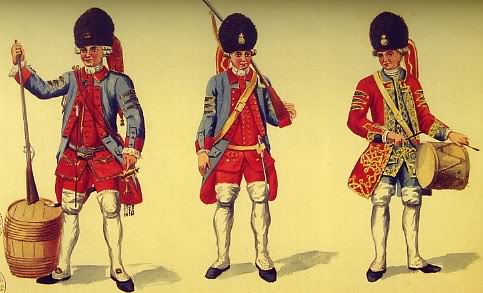 Grenadiers of the first infantry regiment of Porto. Portugal. 1762.